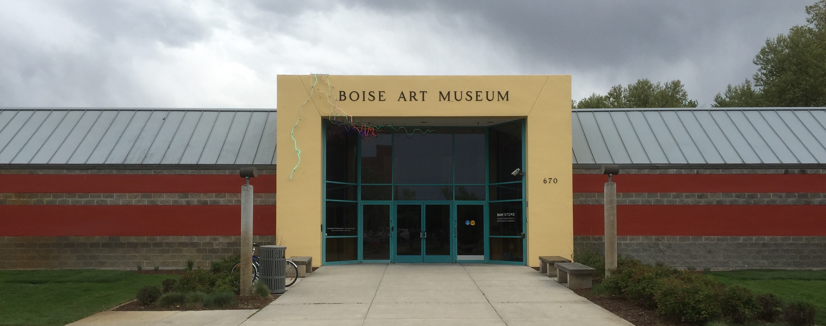 View of the Boise art Museum sculpture garden and exterior of the sculpture court in April of 2016